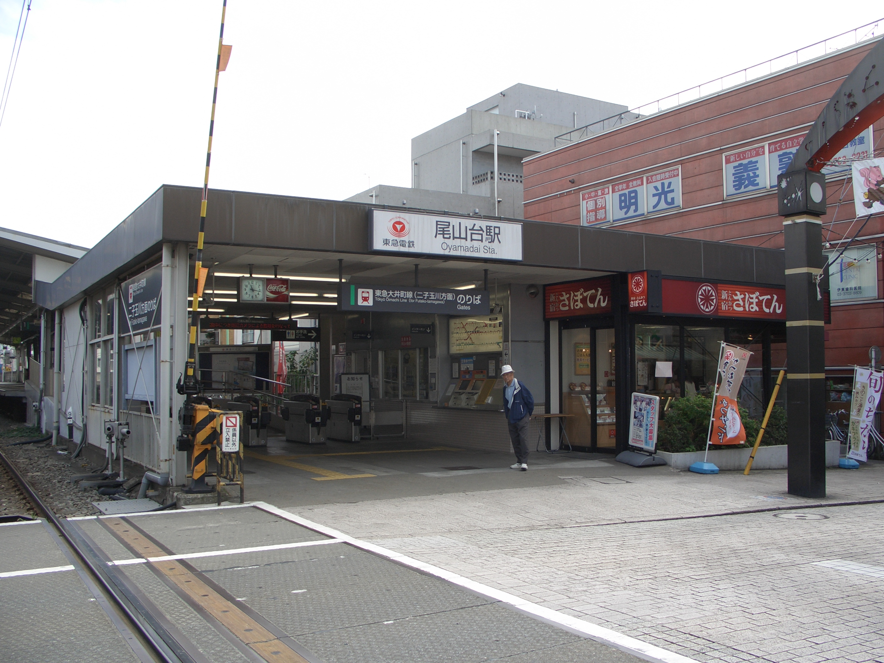 Description（説明）: Tokyu Ōimachi line Oyamadai Station for Futako-tamagawa Gates（東急大井町線 尾山台駅 二子玉川方面 のりば） Source（出典）: Tokyu Ōimachi line Oyamadai Station（東急大井町線 尾山台駅） Photographer/Painter（制作者）: yaguchi（矢口） Date（製作日）: 2006-10-15